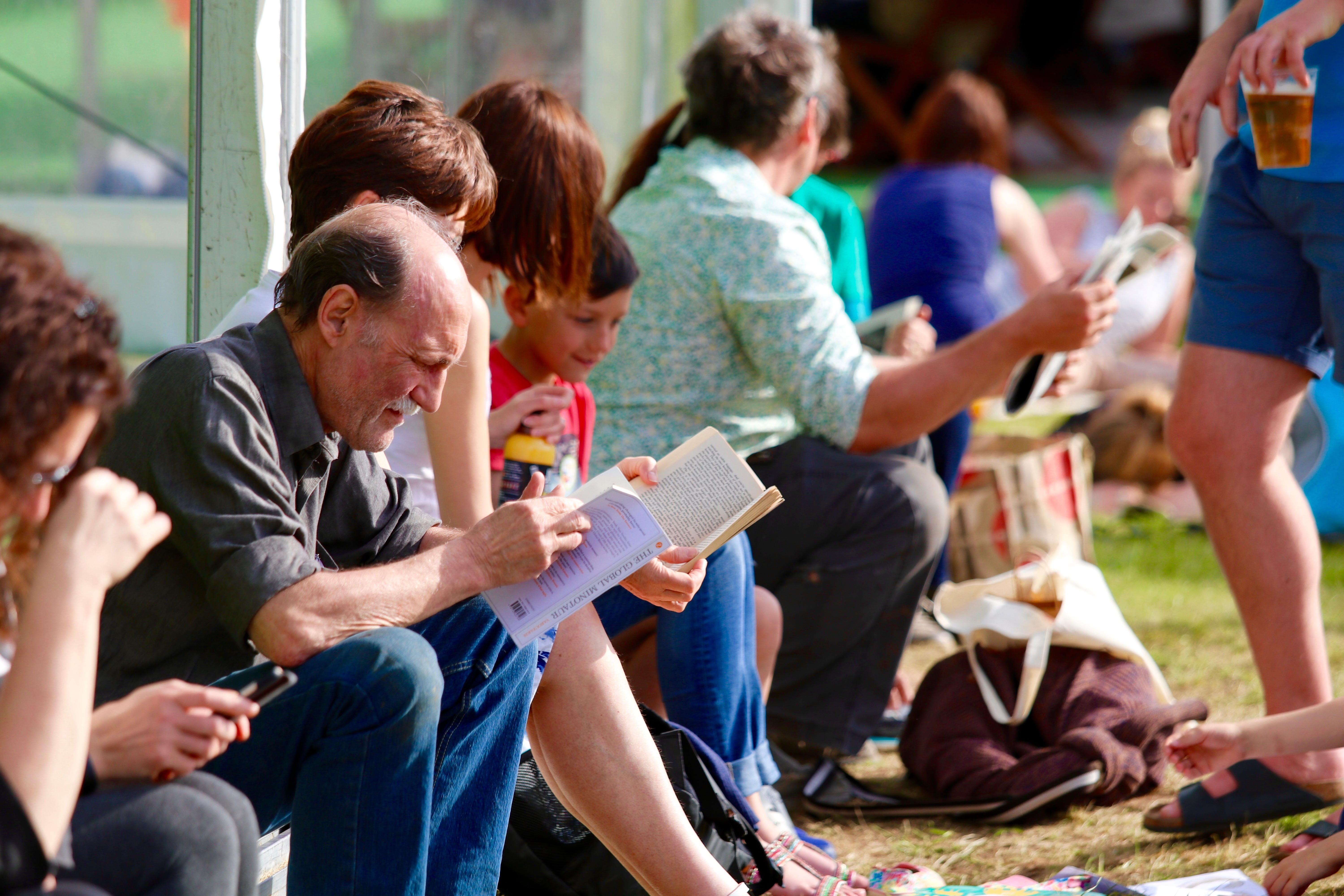 Hay Festival 2016 - crowd